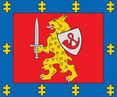 Flag of Tauragė County, Lithuania